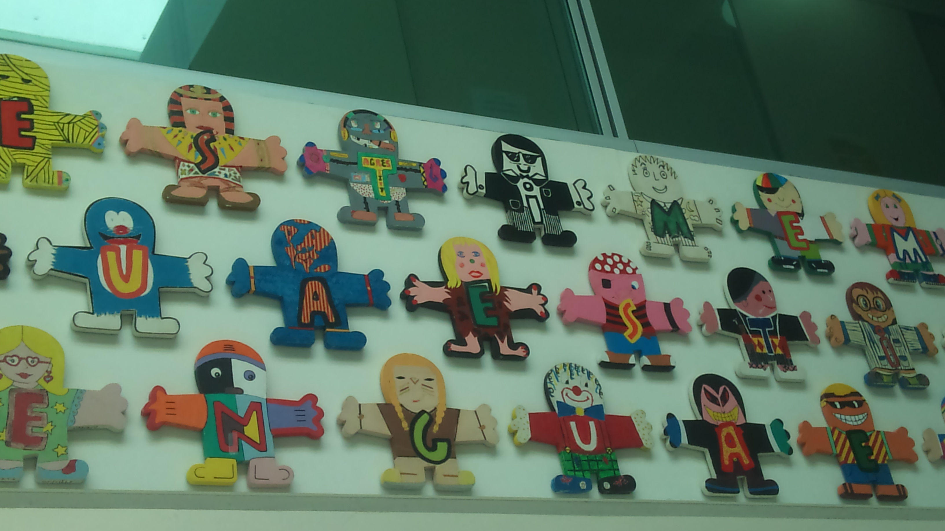 Partial view of the mural done by Xavier Mariscal and the students of the schools in Valencian, in the "Meeting of Schools in Valencian (language)" of the year 1995. Its actual location is the Teacher's Faculty of the University of València.